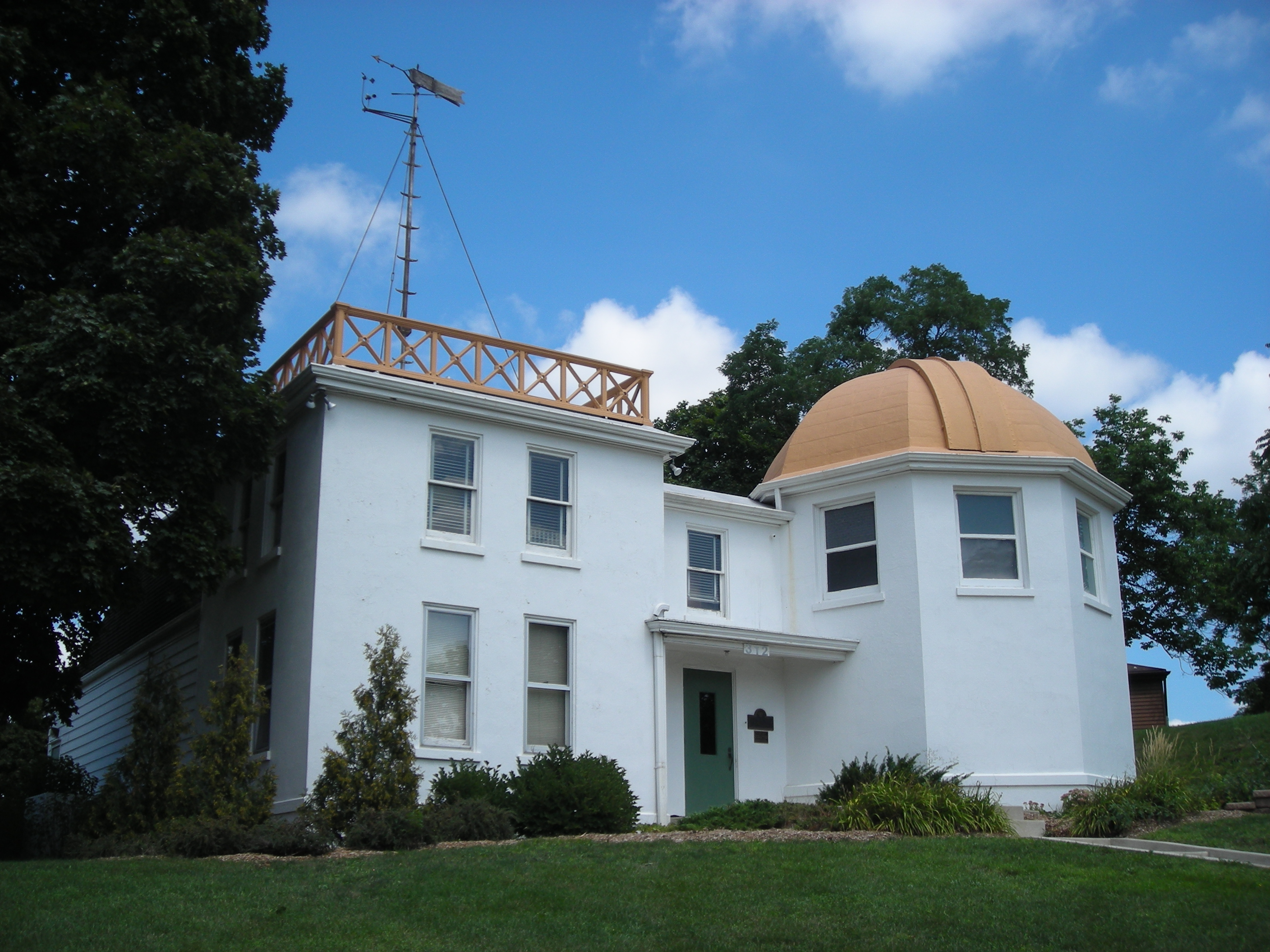 Elgin National Watch Company Observatory. Elgin, Kane County, Illinois. National Register of Historic Places